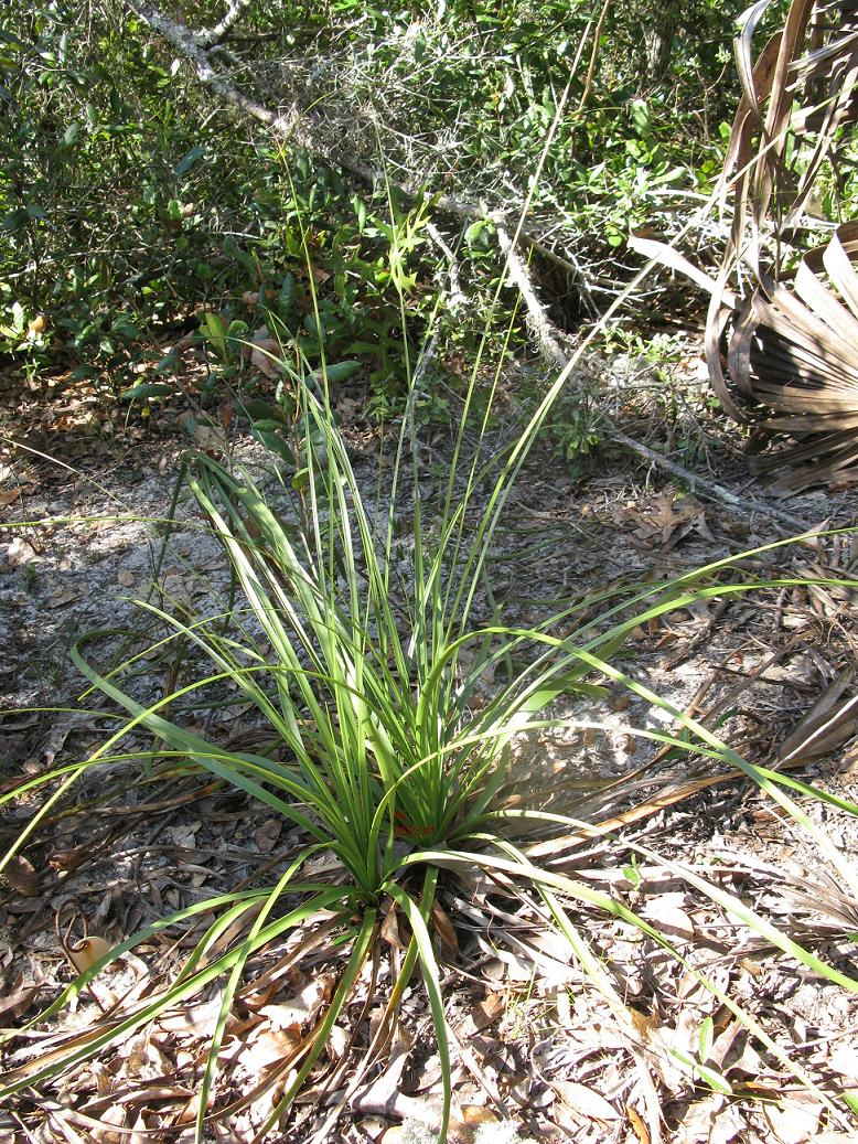 Nolina brittoniana